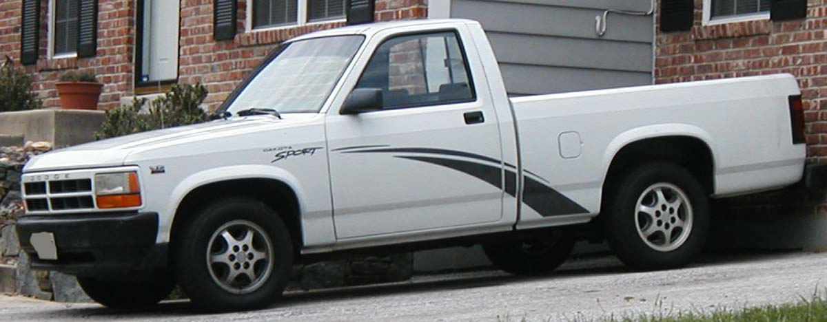 1992-1996 Dodge Dakota photographed in USA.